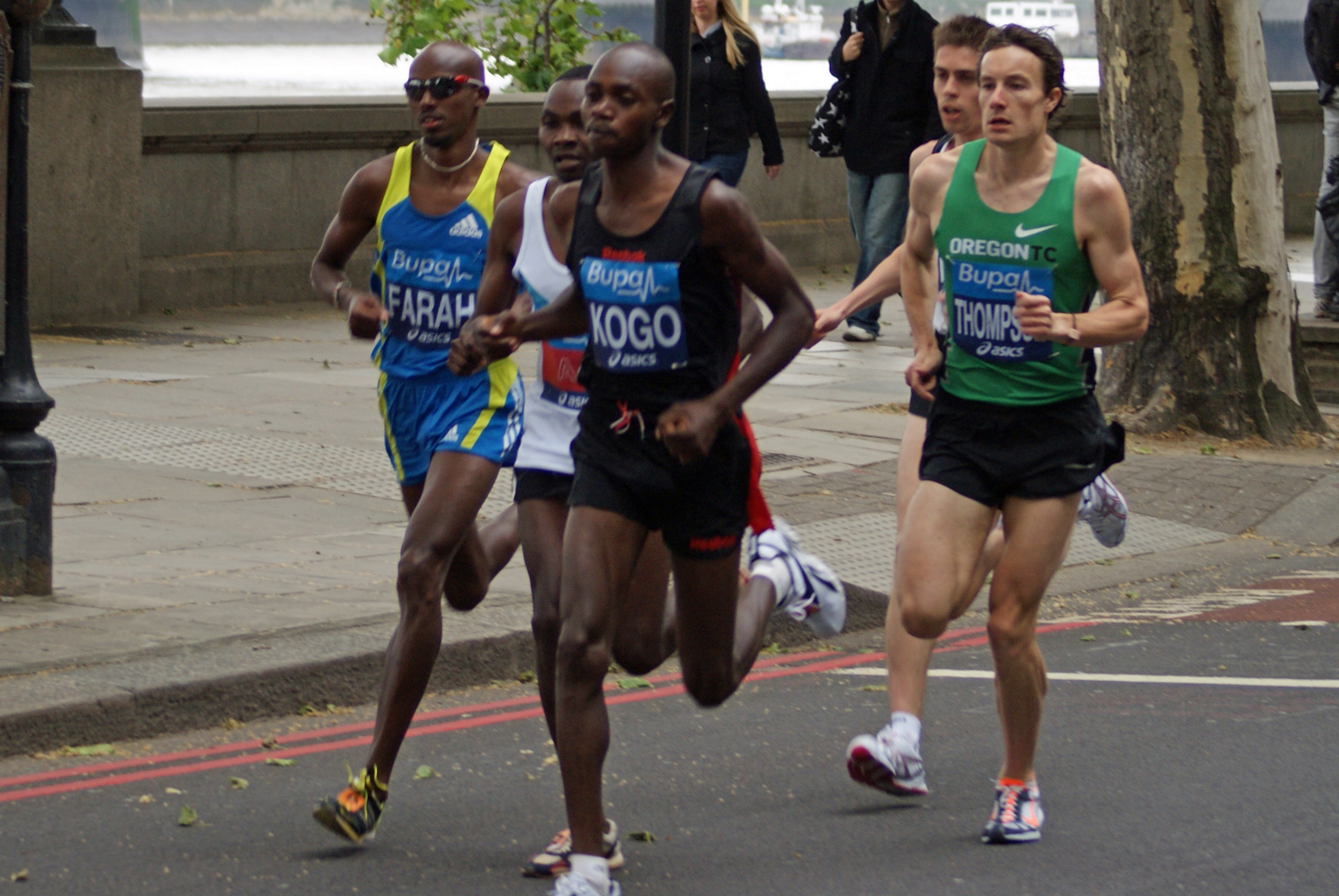 This photo was taken by Julian Mason on Monday 31st May 2010 just past the 9km point of the 2010 Bupa London 10k Run.